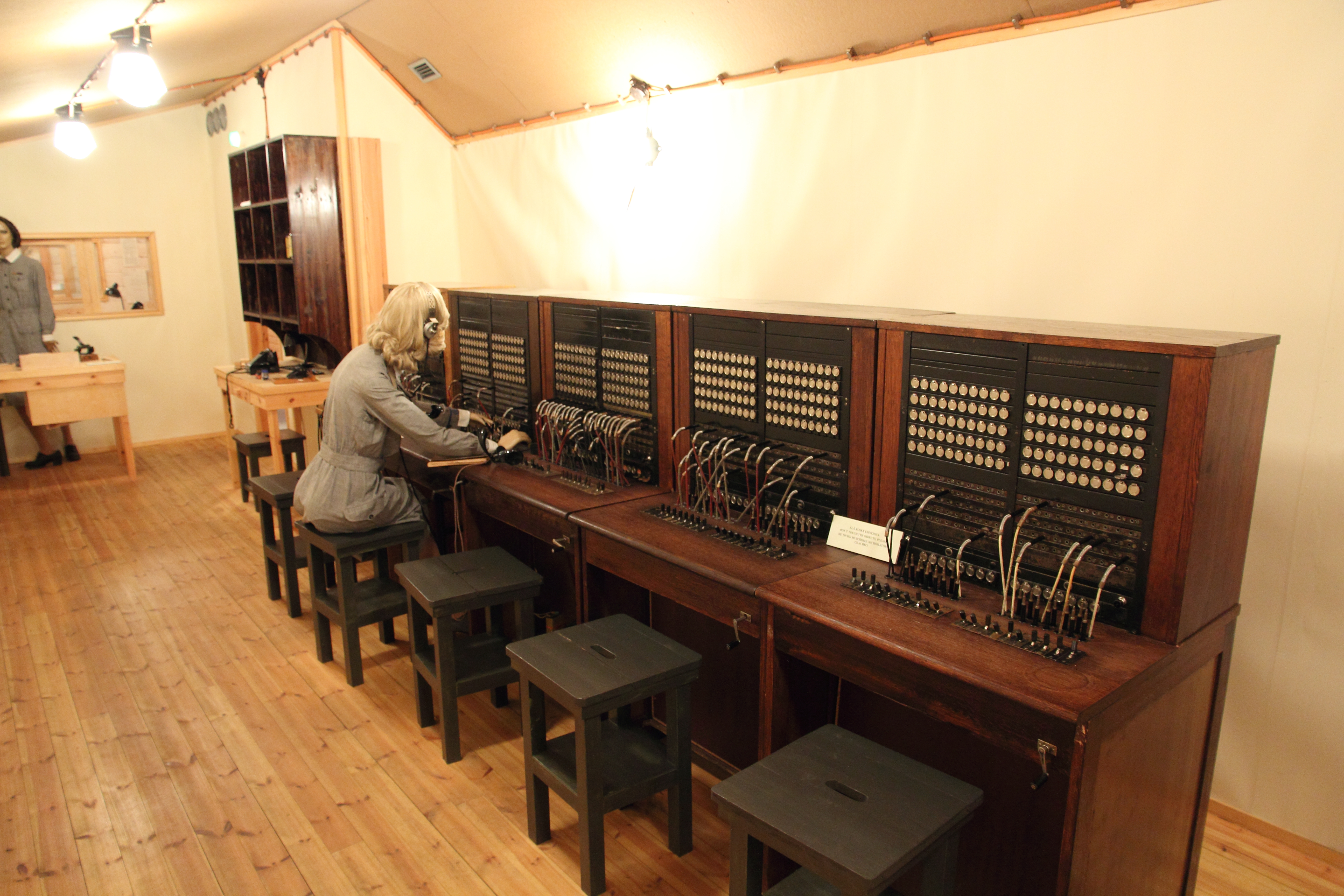 Telephone exchange of communication centre Lokki in Finnish supreme HQ museum.